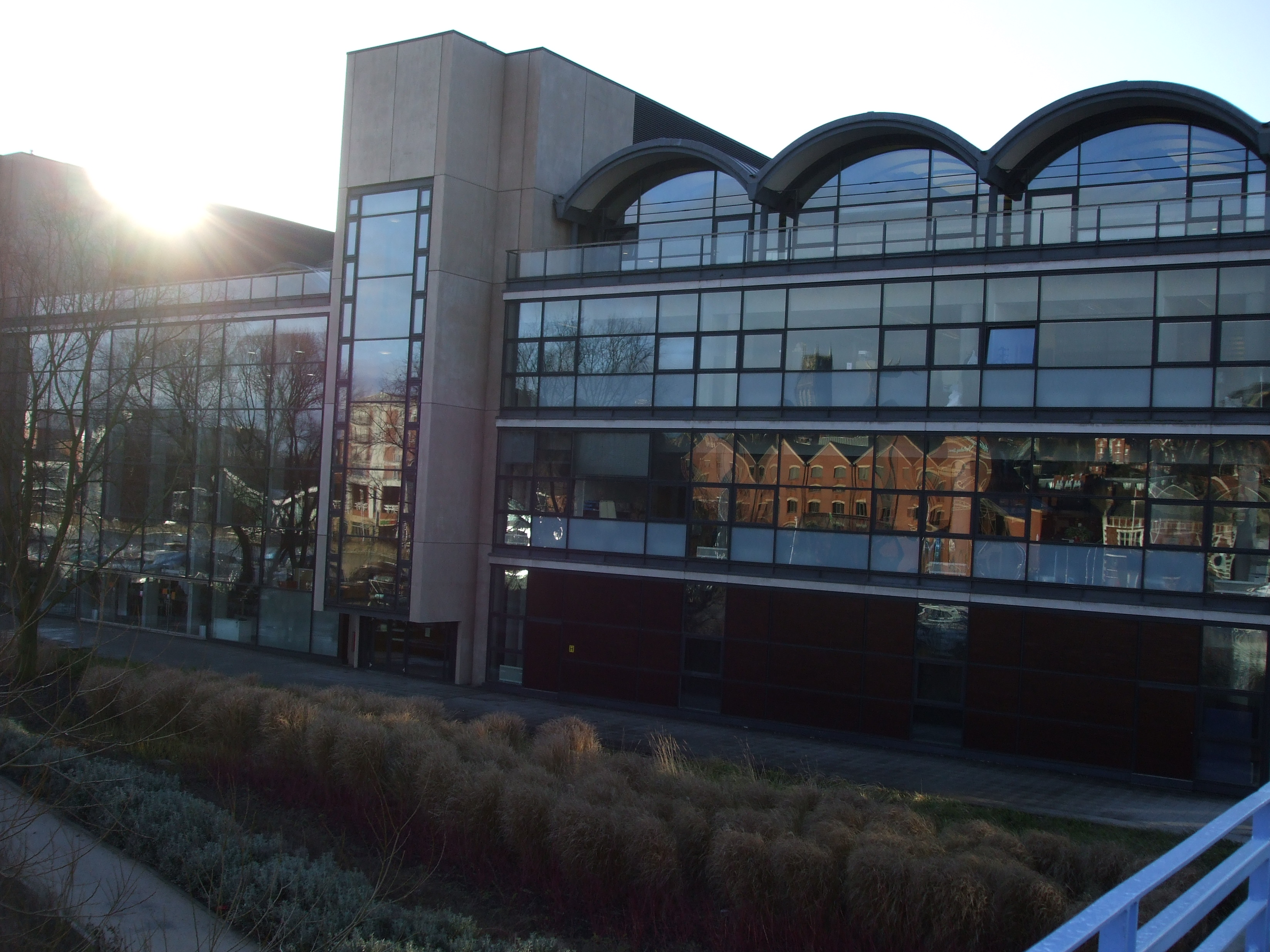 The University of Lincoln right across the brayford